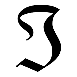 Fraktur I symbol used for denoting the imaginary part of complex number, "Arial Unicode MS" at U+2111.